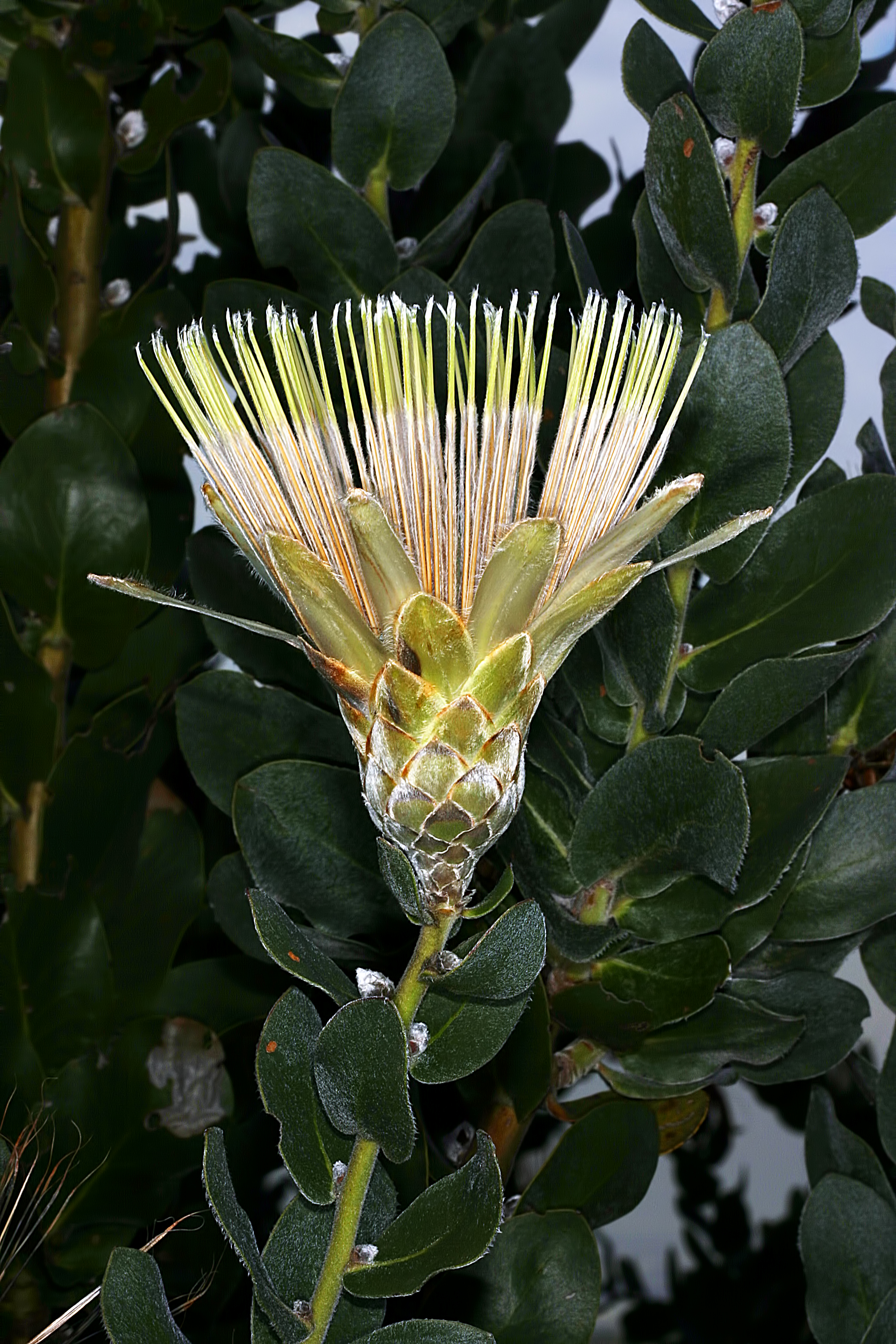 Protea aurea subsp. potbergensis, Proteaceae, open flowerhead; Kirstenbosch National Botanical Garden, Cape Town, South Africa